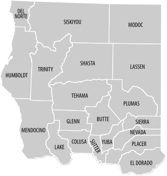 map of the counties of Upstate California